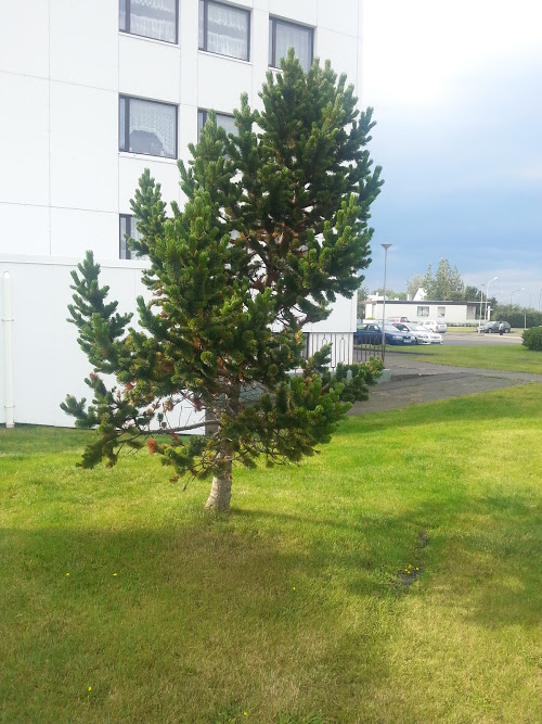 Pinus aristata